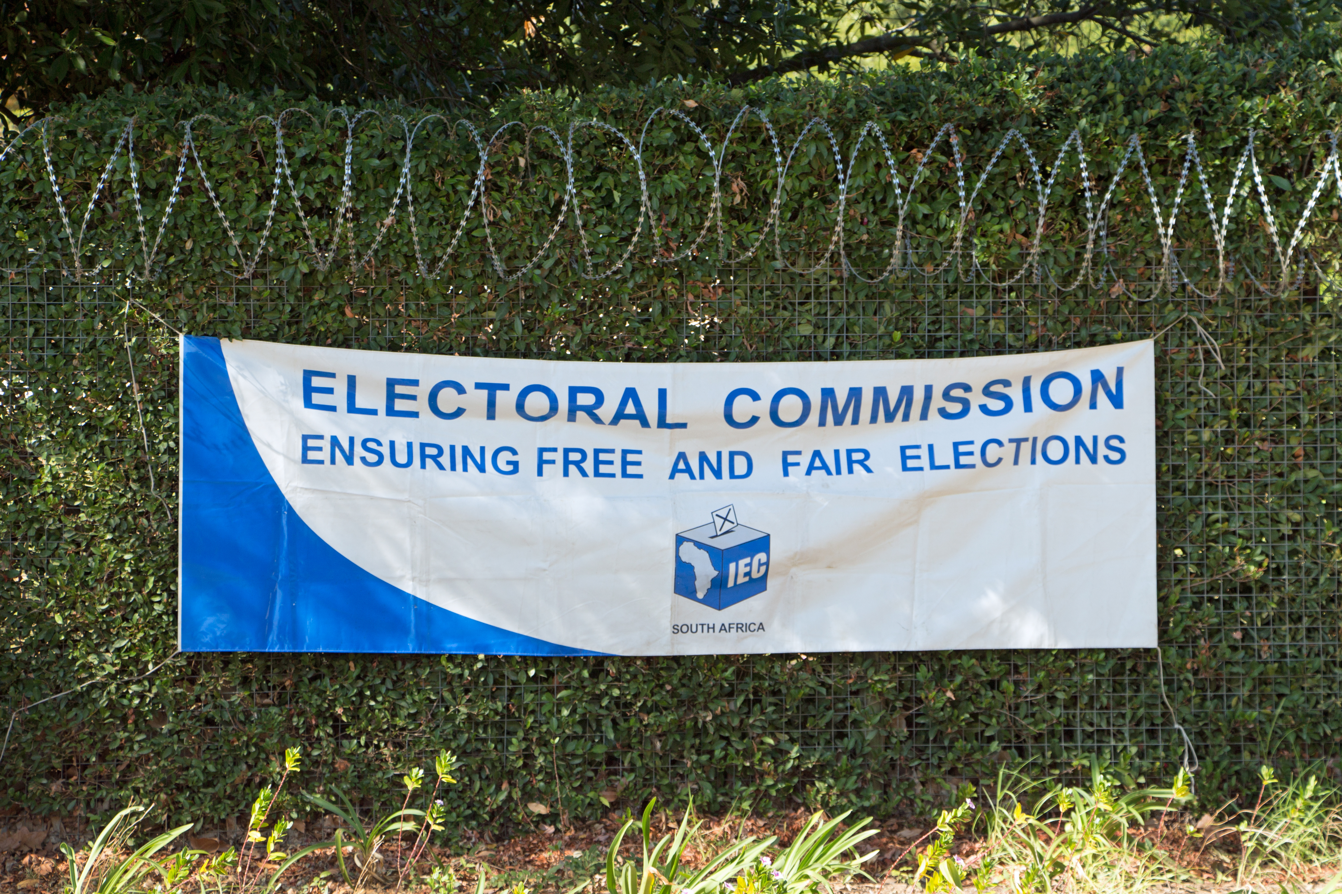 Voting day in Ward 10204021 in the 2014 general election, Paradyskloof, Stellenbosch, South Africa